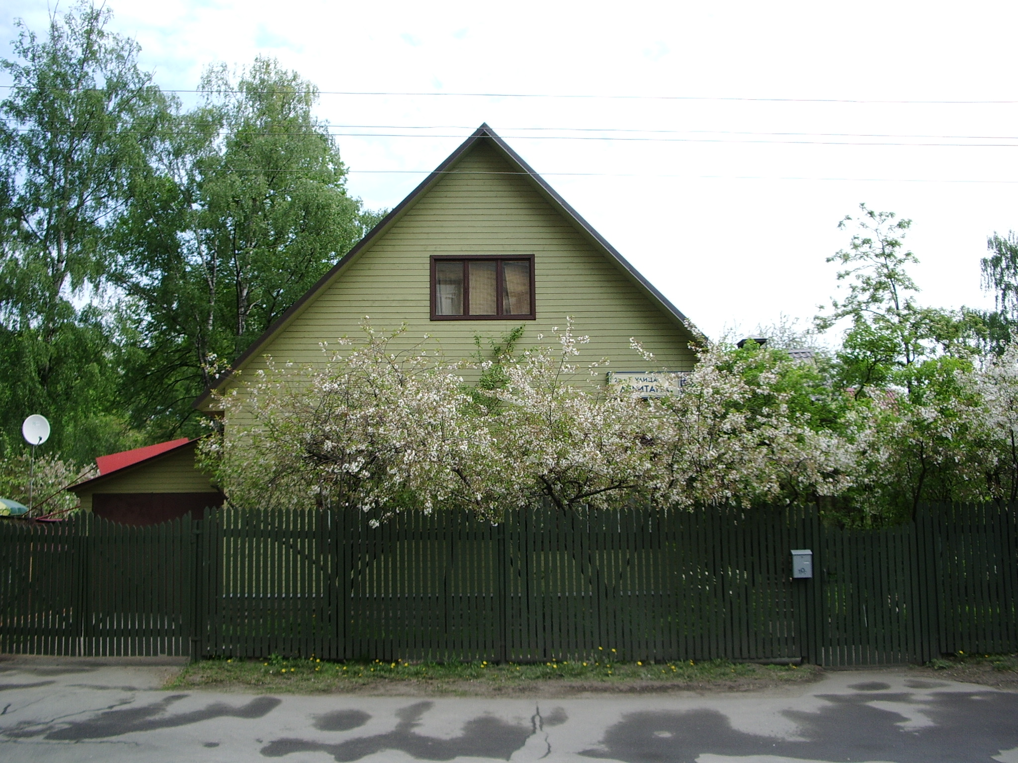 Levitana street 4. Sokol settlement in Moscow.